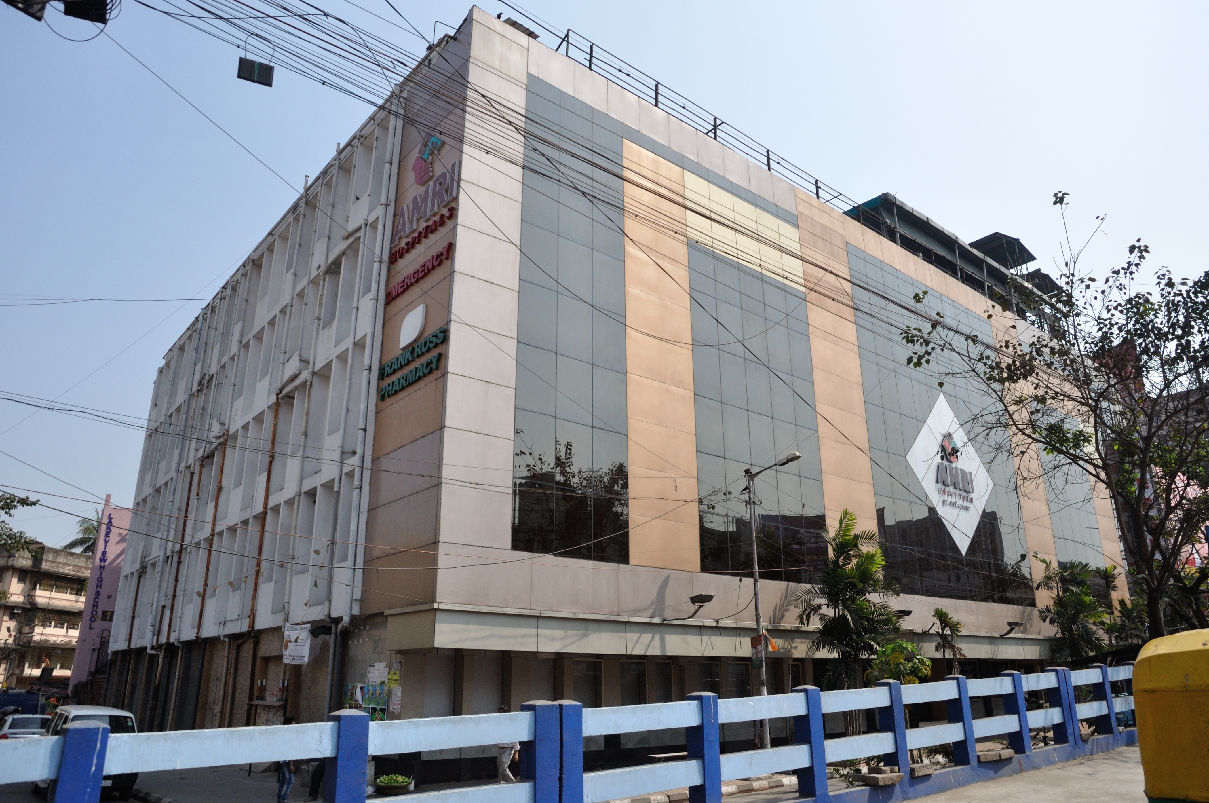 Photographed in Kolkata.